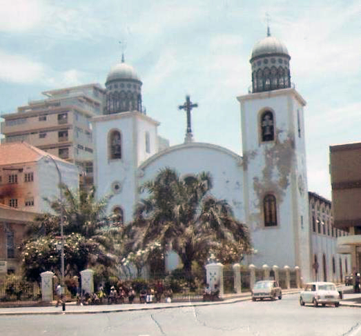 Cathedral of Luanda, Angola, in 1972 (retouched picture)